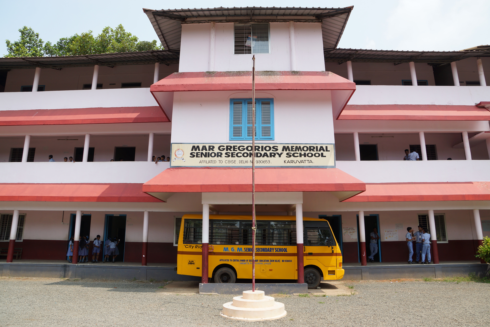 MGM CENTRAL SCHOOL KARUVATTA HARIPAD